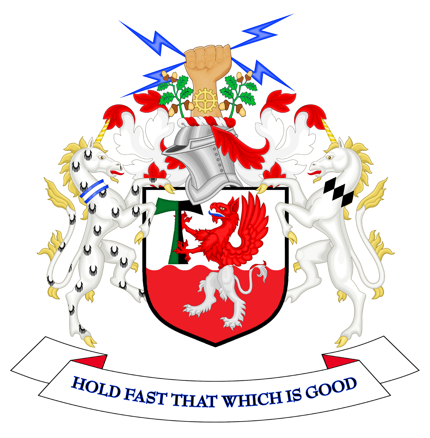 The Coat of arms of Trafford Metropolitan Borough Council, the local government authority for the Metropolitan Borough of Trafford, in Greater Manchester, England. The blazon is:ARMS: Per fess wavy Argent and Gules a Griffin segreant counter-changed holding between the foreclaws a Tau Cross per pale Vert and Sable.CREST: On a Wreath of the Colours between two Sprigs of Oak fructed a dexter Cubit Arm proper charged with a cogwheel Or the hand holding two Flashes of Lightning in saltire Azure.SUPPORTERS: On either side a Unicorn that on the dexter Ermine armed crined tufted and unguled Or and gorged with a Collar Azure charged with a Bar Argent that on the sinister Argent armed crined tufted and unguled Or and charged on the neck with three Lozenges conjoined in fess Sable.